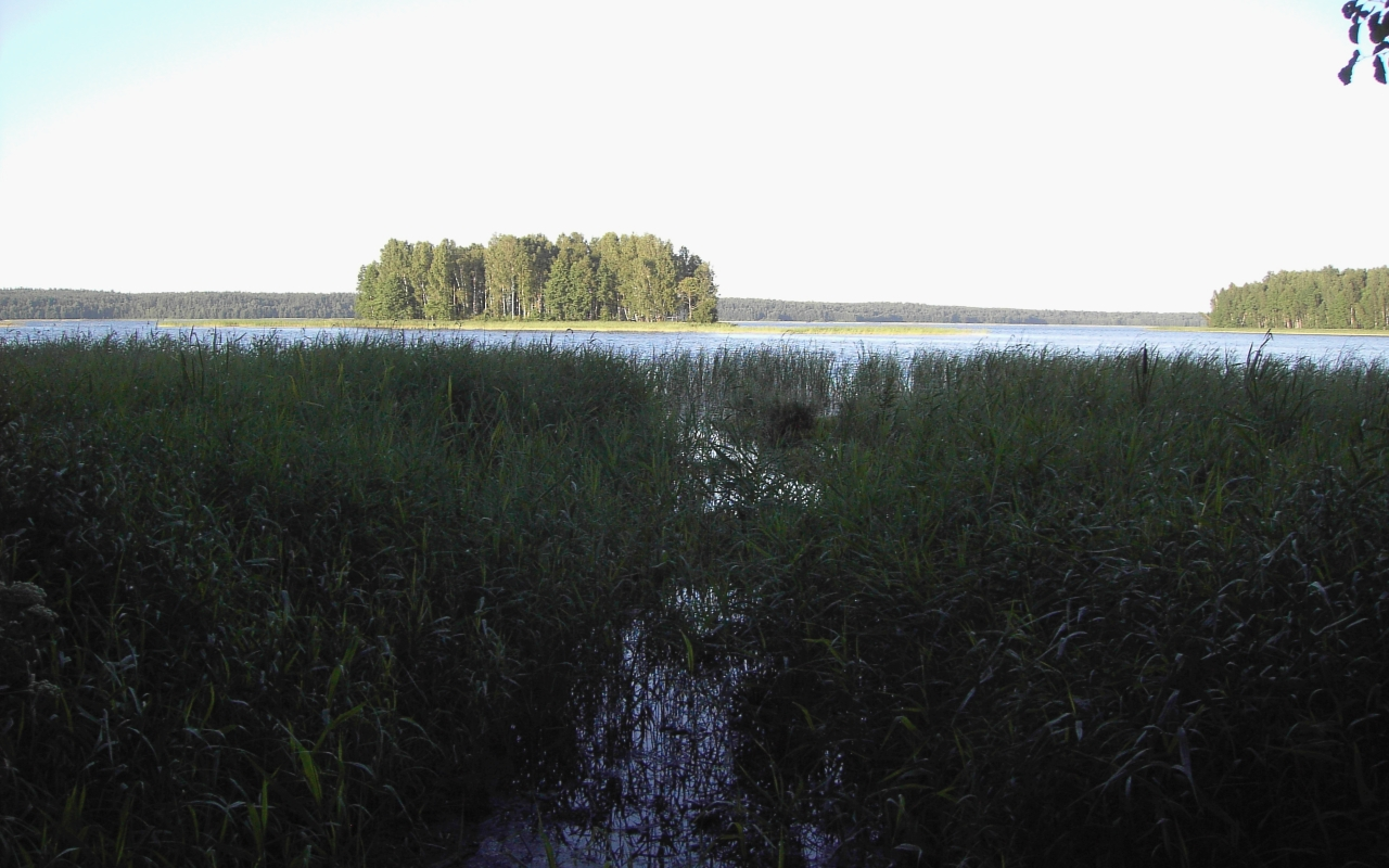 Lake Dūkštas, Ignalina district, Lithuania